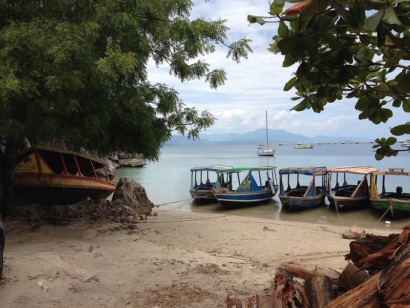 Water taxis parked at Labadie beach near Cap Haitien, Haiti